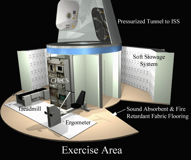 Computer Generated Still --- Closeup of Transhab Module Level 3. Transhab to be installed on the International Space Station.